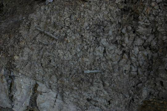 Marl